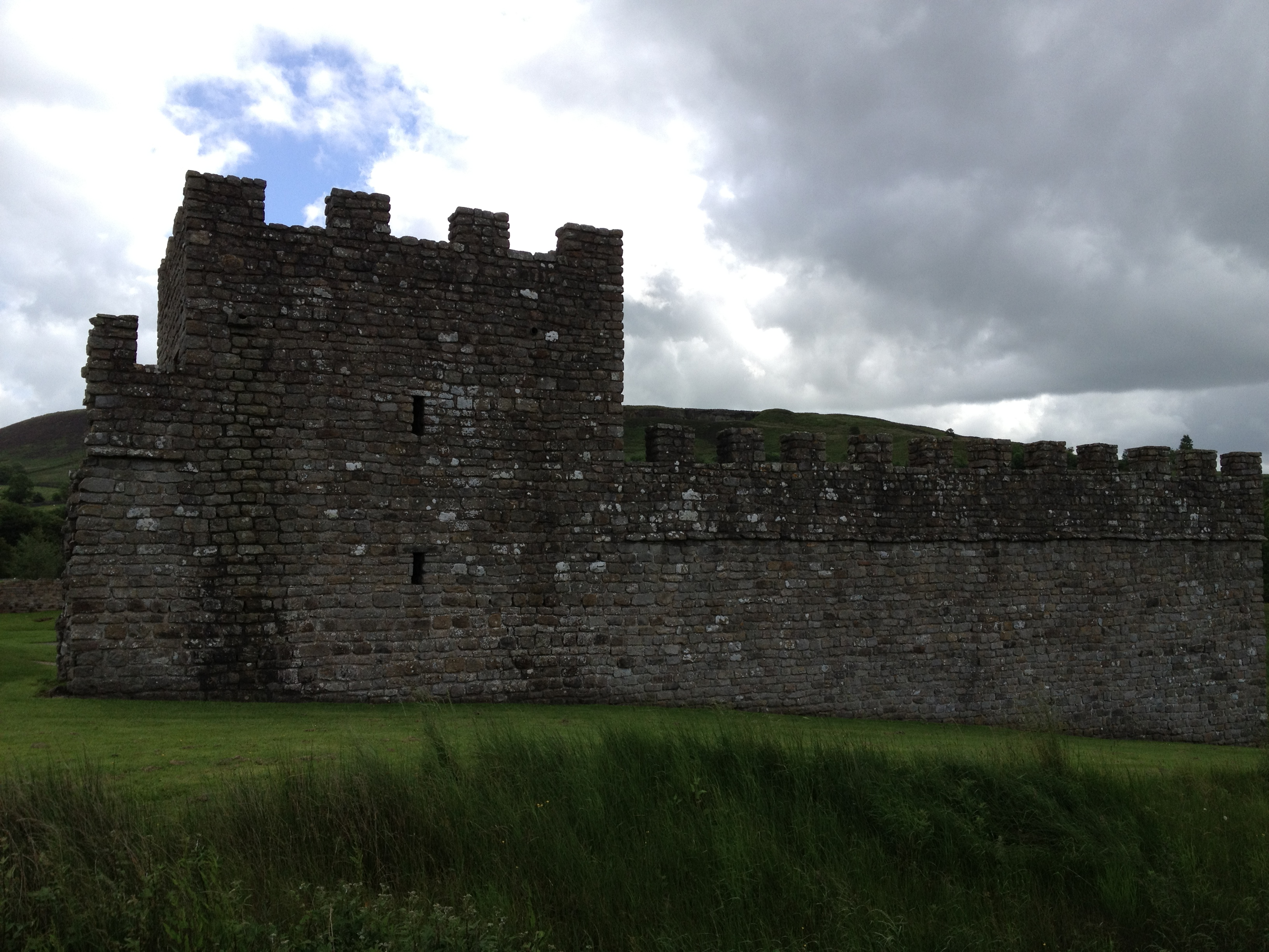 Context shot of Reconstruction Turret at Vindolanda including some of the reconstructed Hadrian's Wall